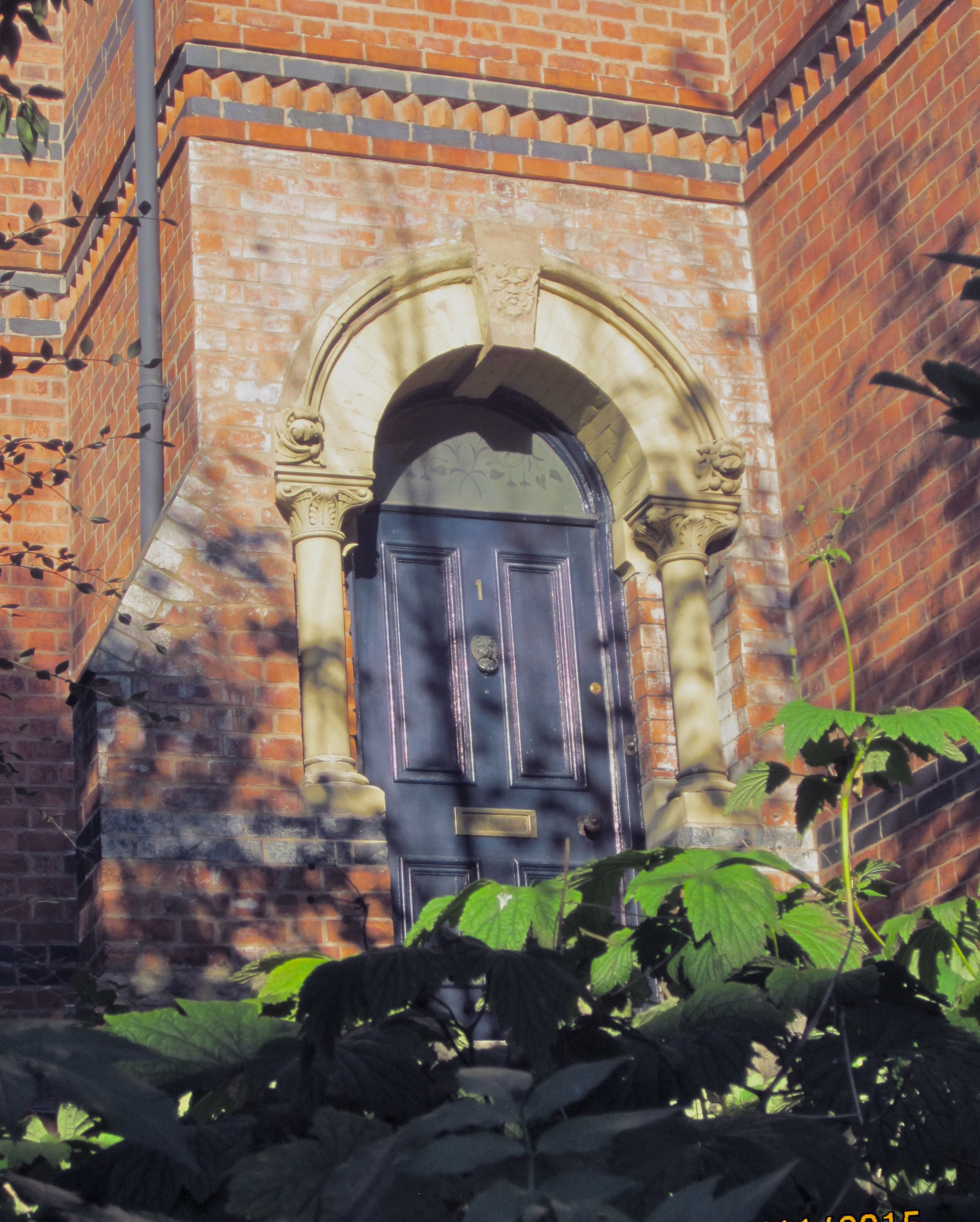 Doorway to the house designed by the architect Charles Bell for Mrs Whelpton in 1877